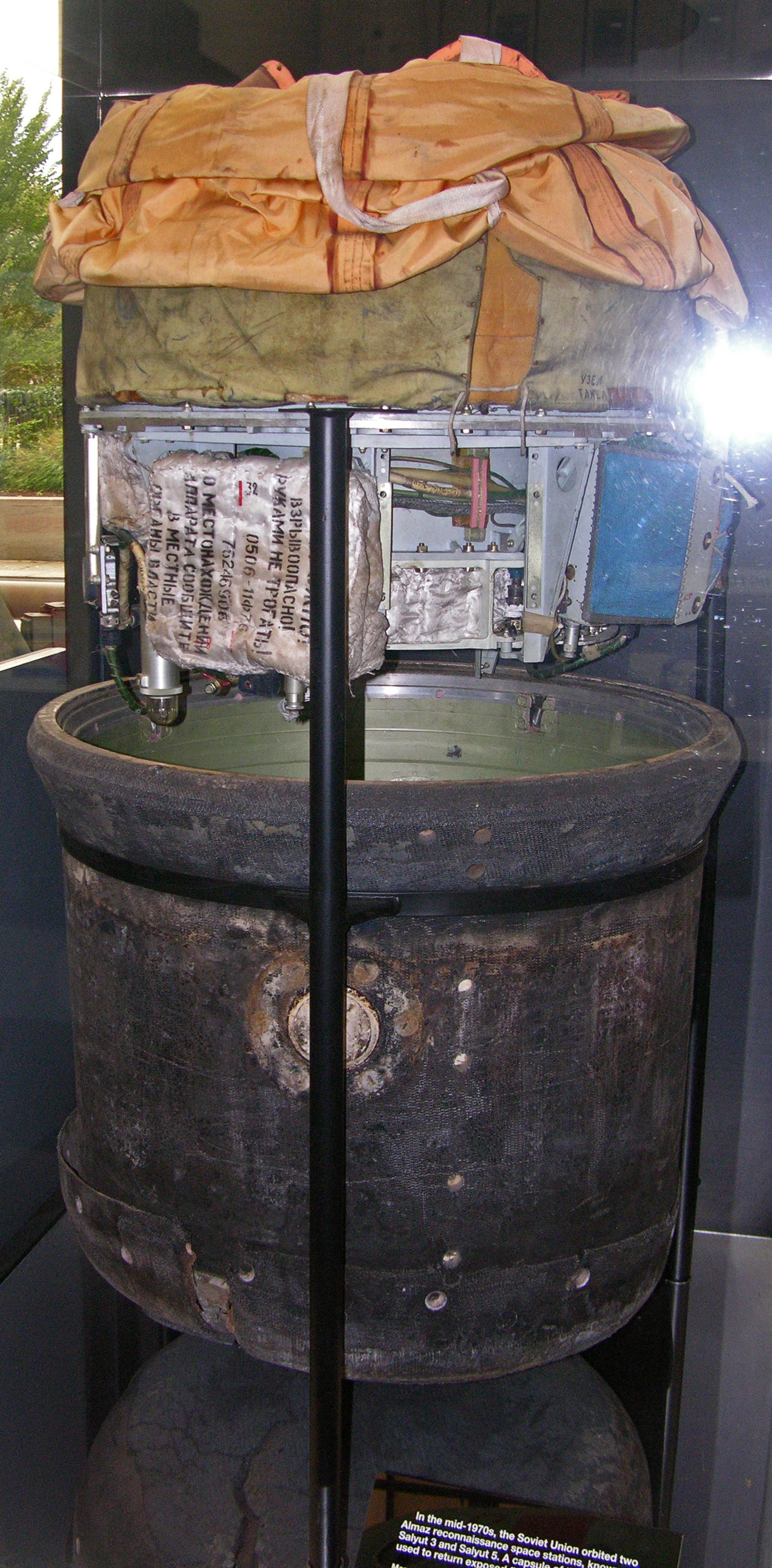 Salyut 5 / Almaz 3 return capsule (at National Air And Space Museum Washington)